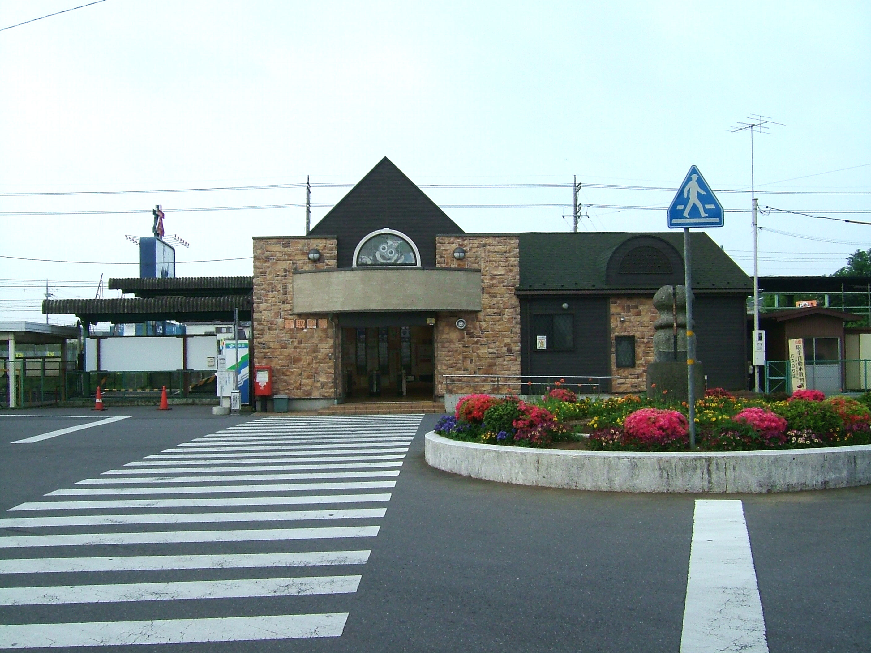 Shin-Toride Station (Kanto Railway Jōsō Line)